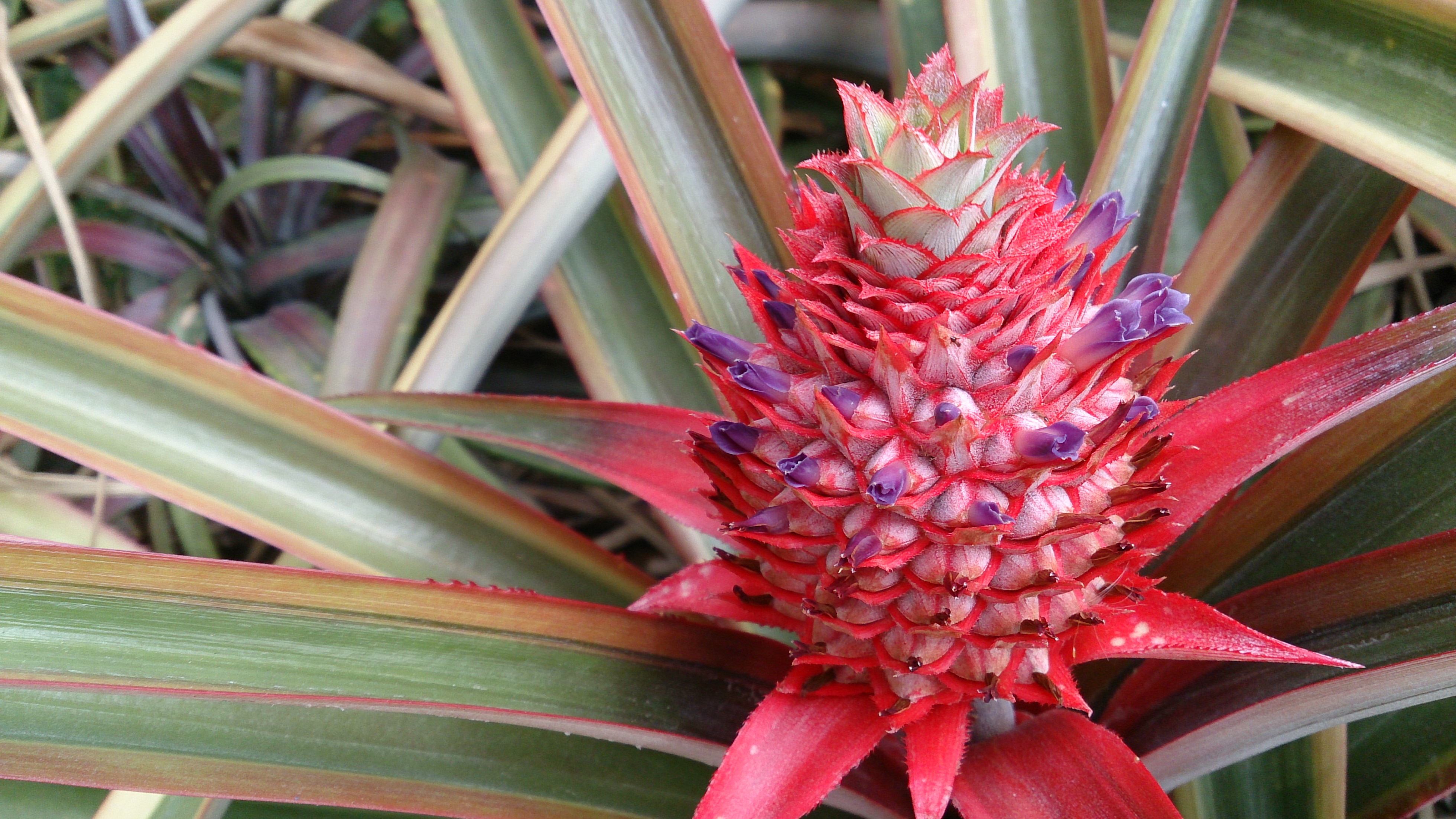 Ananas bracteatus 'Striatus'. Common name: Red Pineapple